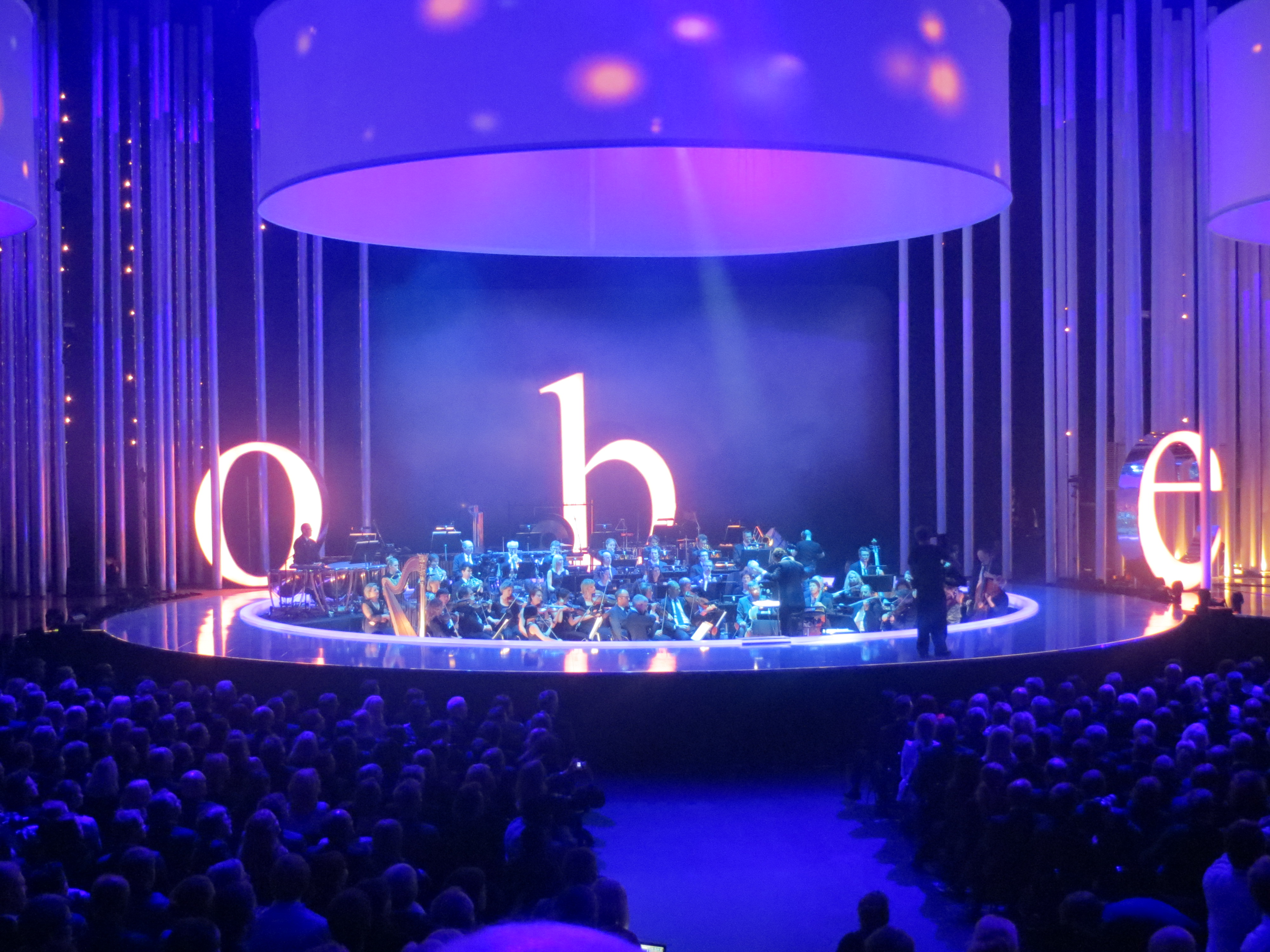 Photo from the Nobel Peace Prize Concert 2012, in Oslo, Norway